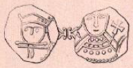 Coin thought to represent the Norwegian co-kings Eystein Magnusson and Sigurd the Crusader, thus dated to 1115-23. Source: Skaare, Kolbjørn (1995). Norges mynthistorie. 1. Universitetsforlaget. p. 57.